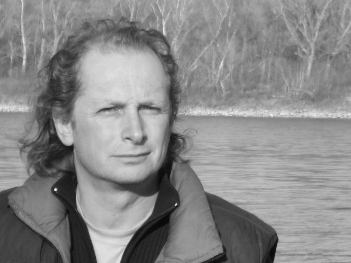 Wolfgang Liebhart